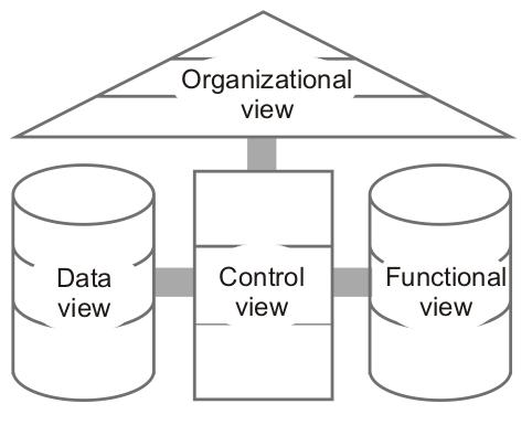 ARIS view model